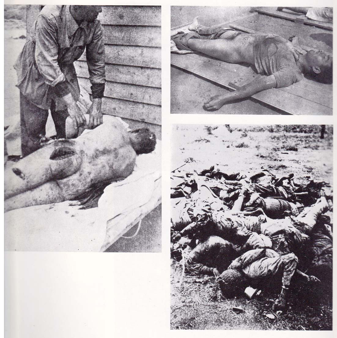 Gondrand Massacre